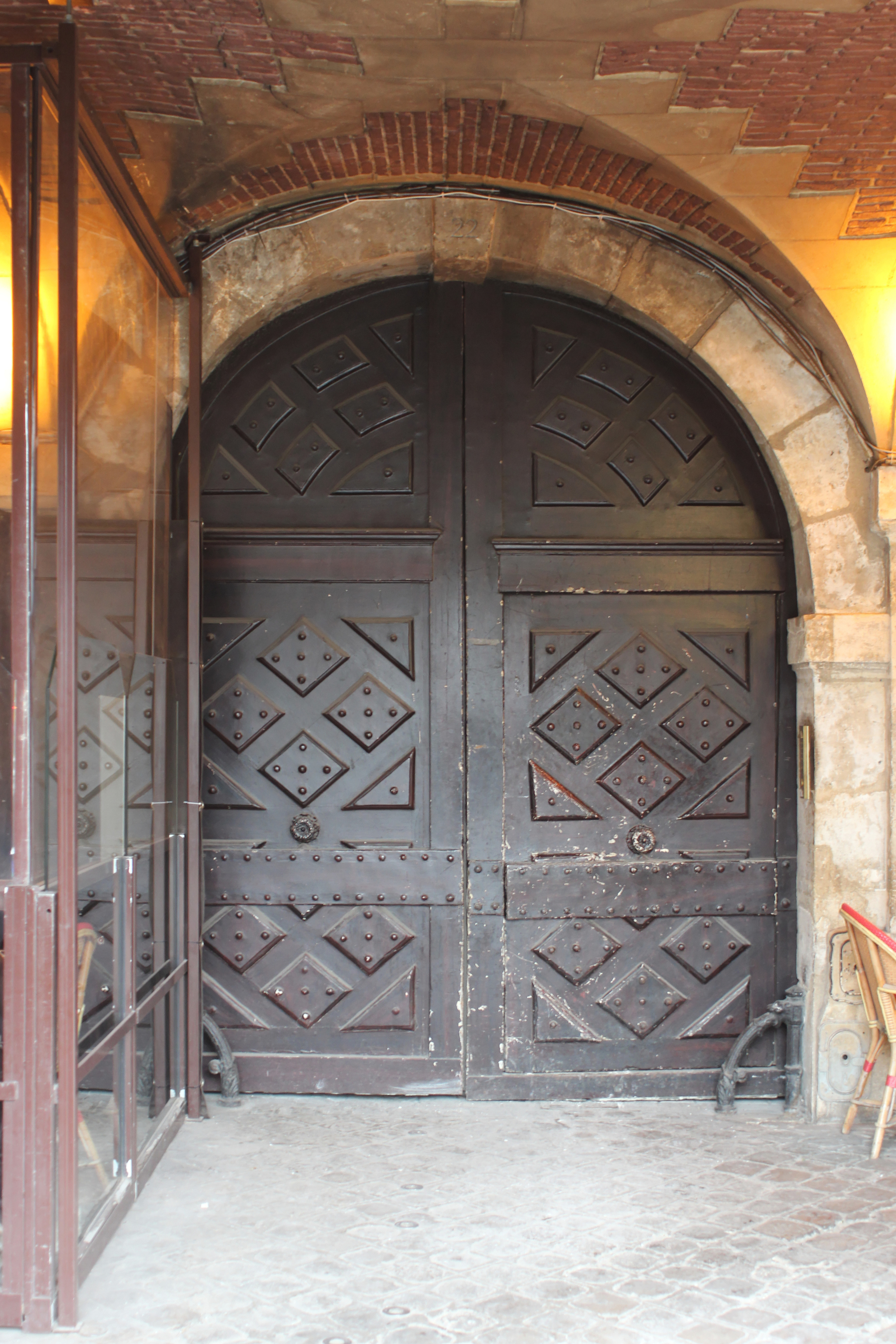 Door of 22 Place des Vosges, Paris.